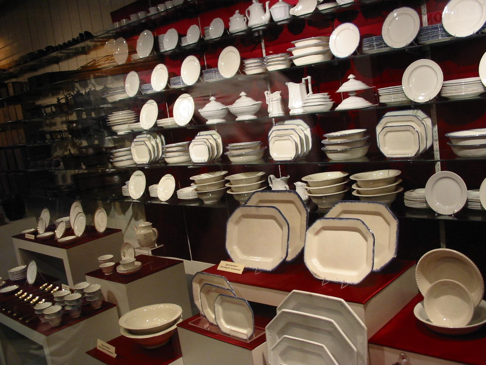 Dishes rescued from the Arabia Steamboat.